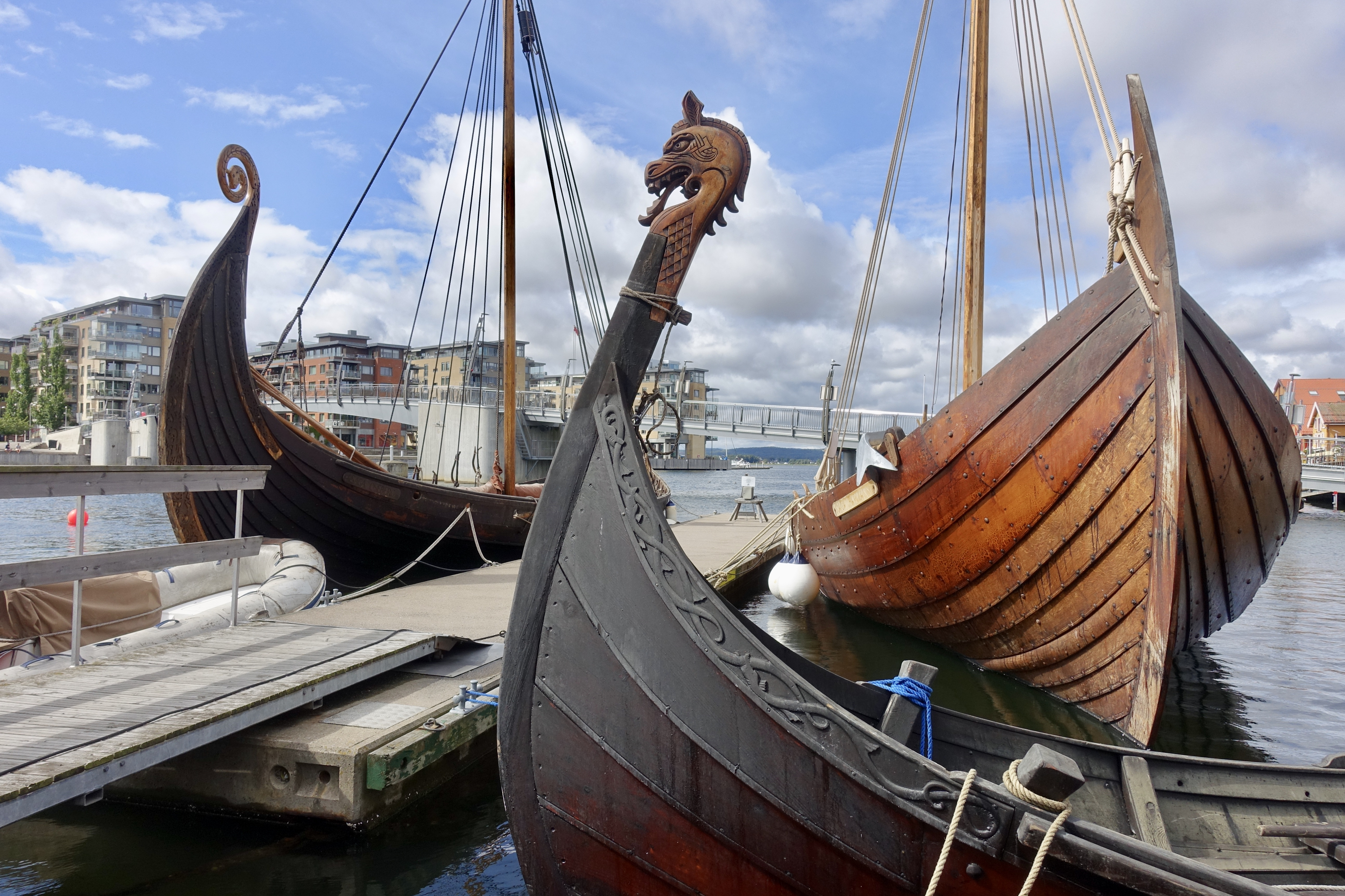 Prows of viking ships and medieval boats moored to the pier in the harbour of the small city of Tønsberg, Norway: "Saga Oseberg", a 2012 built full scale replica of the "Oseberg Ship", a Viking ship from about AD 820 discovered in a burial mound near Tønsberg, with the prow ending in a spiral shaped serpent's head "Saga Farmann", a 2018 built reconstrucion of the "Klåstadskipet" ship from about AD 820 "Sæheimr", built 2016, inspired by the "Fjørtoftbåten" boat from about AD 860, decorated with a dragon's head on the fore stem. Also seen are: The board walk by the Byfjorden fiord, the Kaldnes bro, a bascule footbridge across the water from the city center, the Kaldnes Brygge apartements area, etc. The photograph was taken in August 2019.